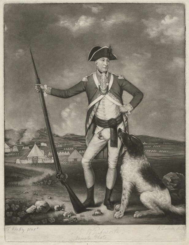 Portrait of Template:Richard Whitworth (c.1734–1811), British politician.